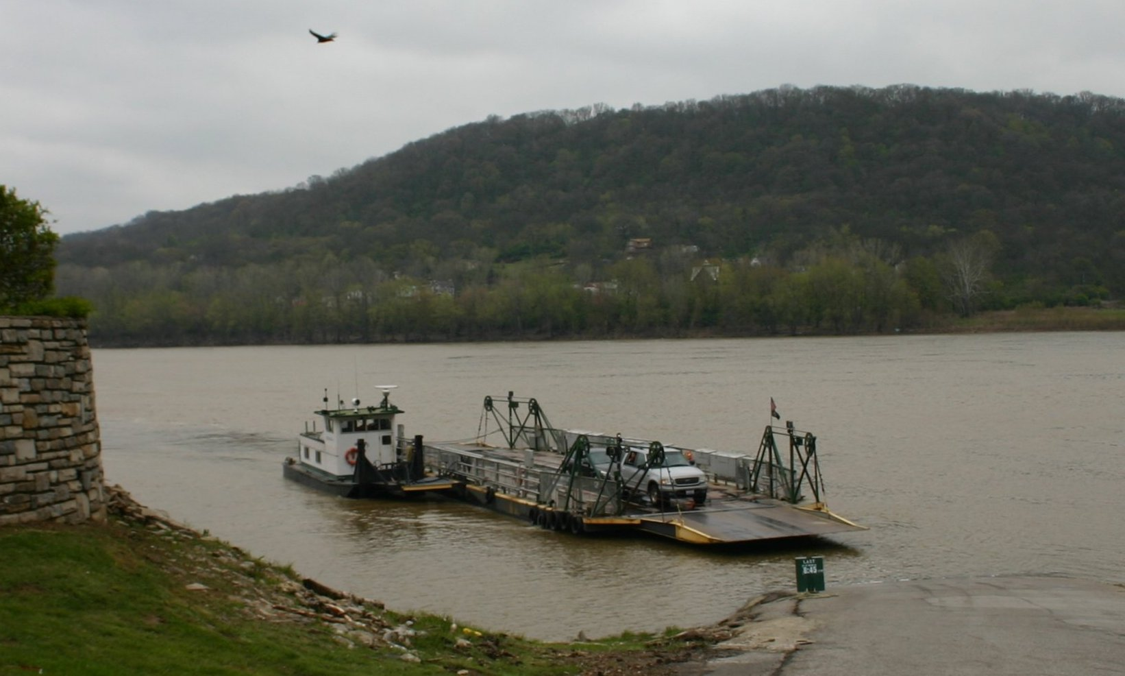 Photo taken by Branlon from Boone County, Kentucky in April 2007 of one of the ferries operated by the Anderson Ferry service.